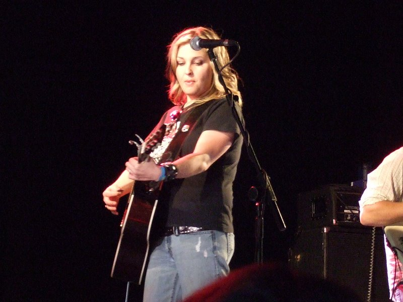 Sunny Sweeney, Midlands Music Festival 2007